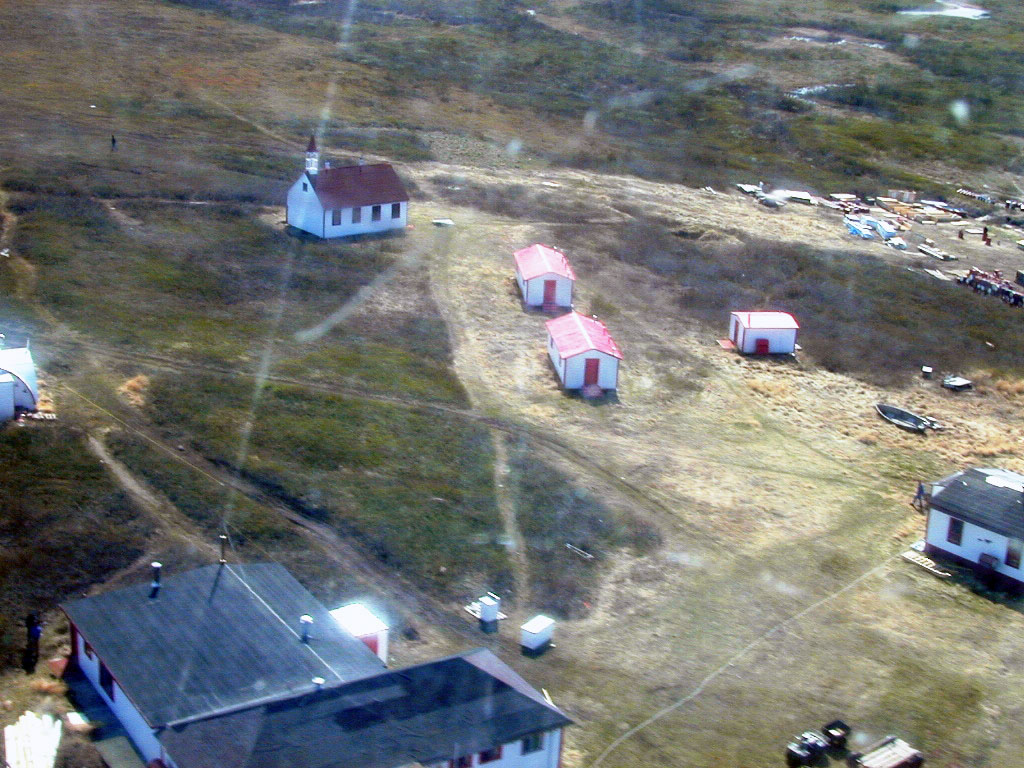 20 June 1999. Bathurst Inlet, Nunavut from the air. At the top of the picture is the old Roman Catholic Mission and also visible are some of the old Hudson's Bay Company buildings in their traditional red and white.